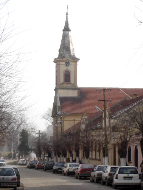 Catholic church in Titel/ Vojvodina/ Serbia